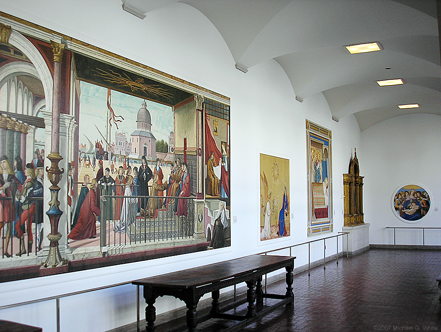 The Nicholas Lochoff Gallery in the Frick Fine Arts Building at the University of Pittsburgh. photo by Michael G White